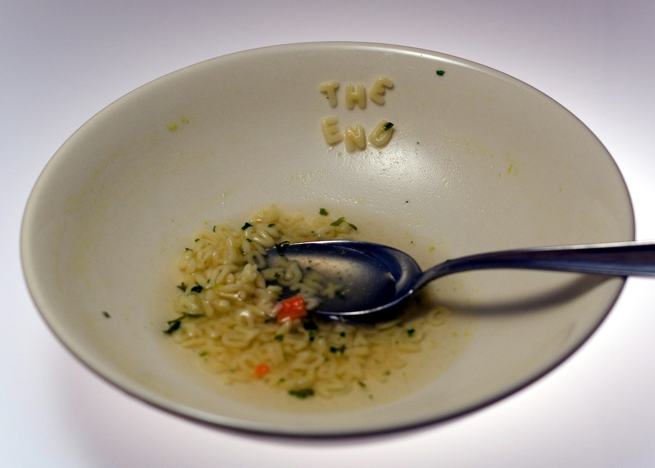 A bowl of alphabet soup nearly full, and nearly empty, spelling "THE END" in the latter case